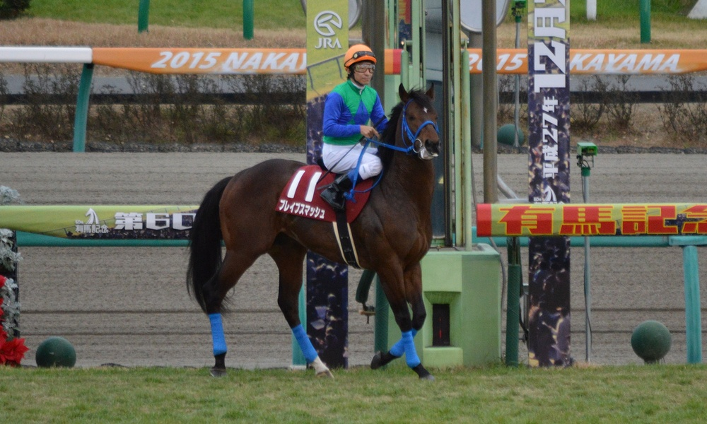 Japanese race horse Brave Smash at Nakayama racecourse. Nakayama (JPN) 27 Dec 2015Hopeful Stakes (Grade 2) (Turf) (2yo) 1m2f Firm RankHorse NameOddsAgeWgtJockeyTrainer1stHartley (JPN)64/10C28-9James Hugh BowmanTakahisa Tezuka7thBrave Smash (JPN)287/10C28-9Norihiro YokoyamaMichihiro OgasaOthers are omitted. (17 horses entered in a race.)